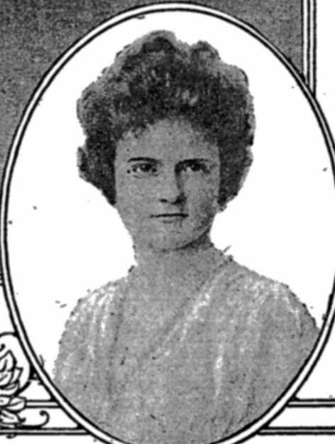 Photo of Catherine L. Hamersley, 1891-1977, New York, NY